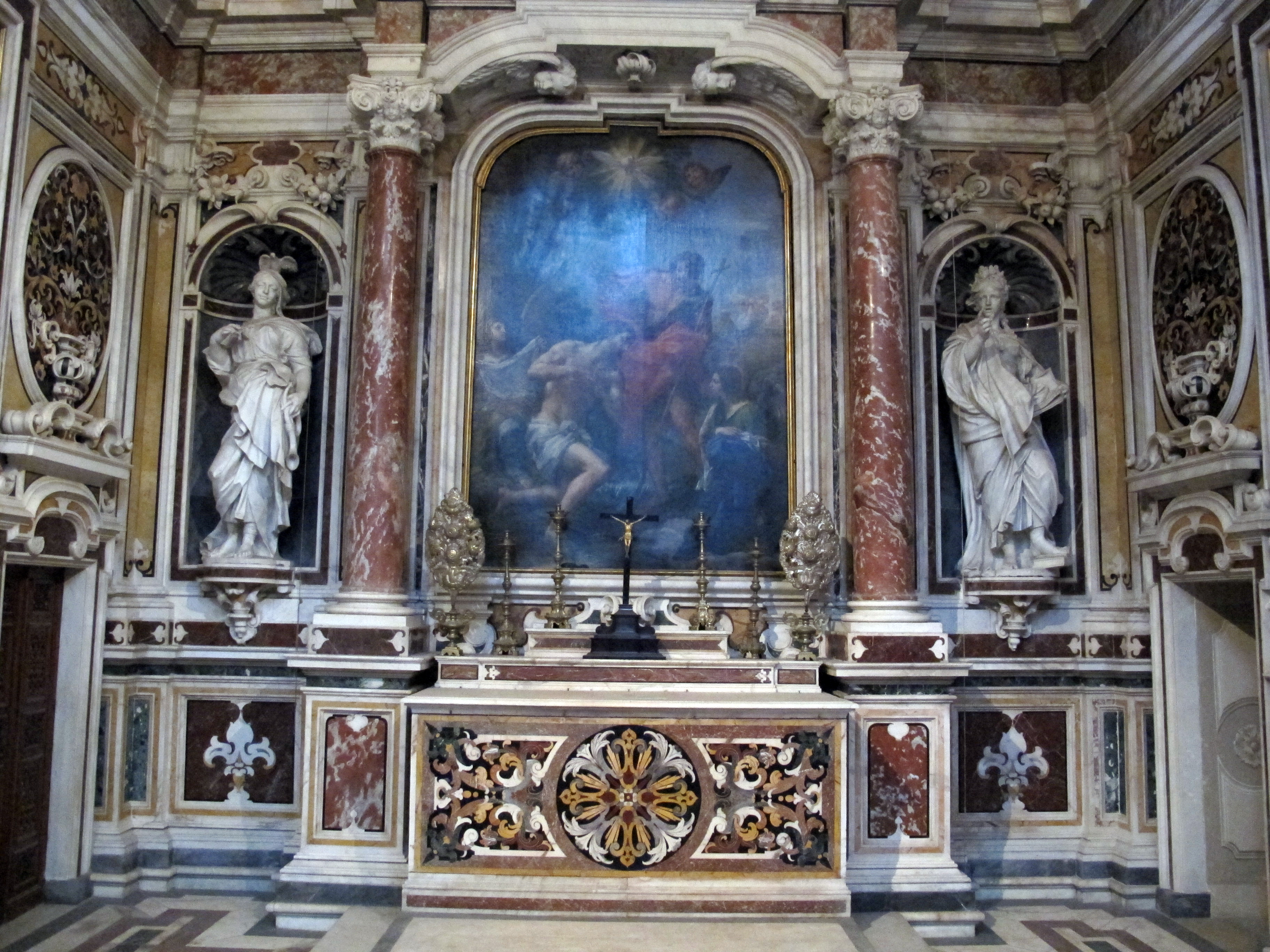 Certosa di San Martino (Naples) - Church